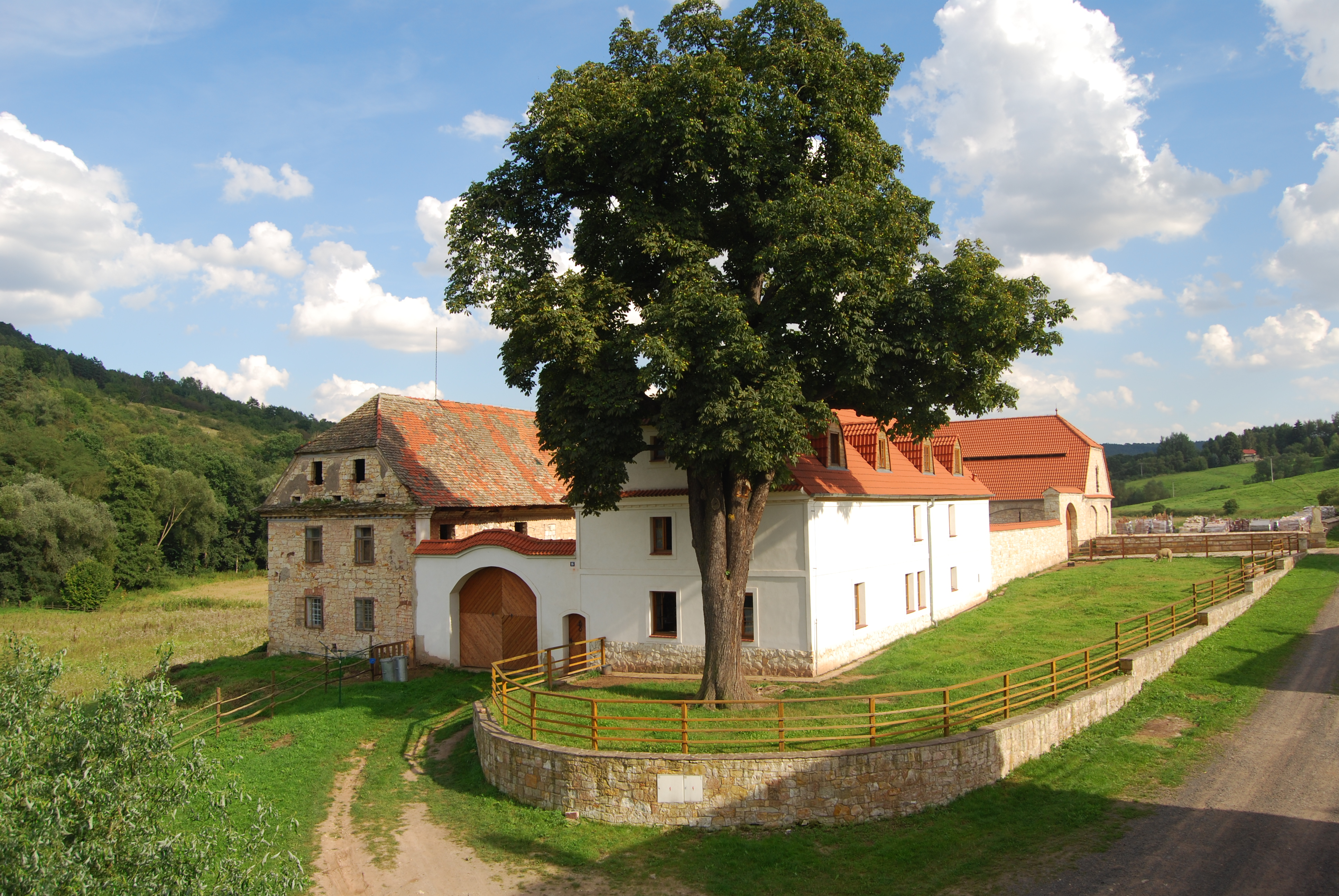 House number 16, courtyard farm in Konětopy in Louny District in Czech Republic; in front is a famous tree Jírovec u Kleinova statku.